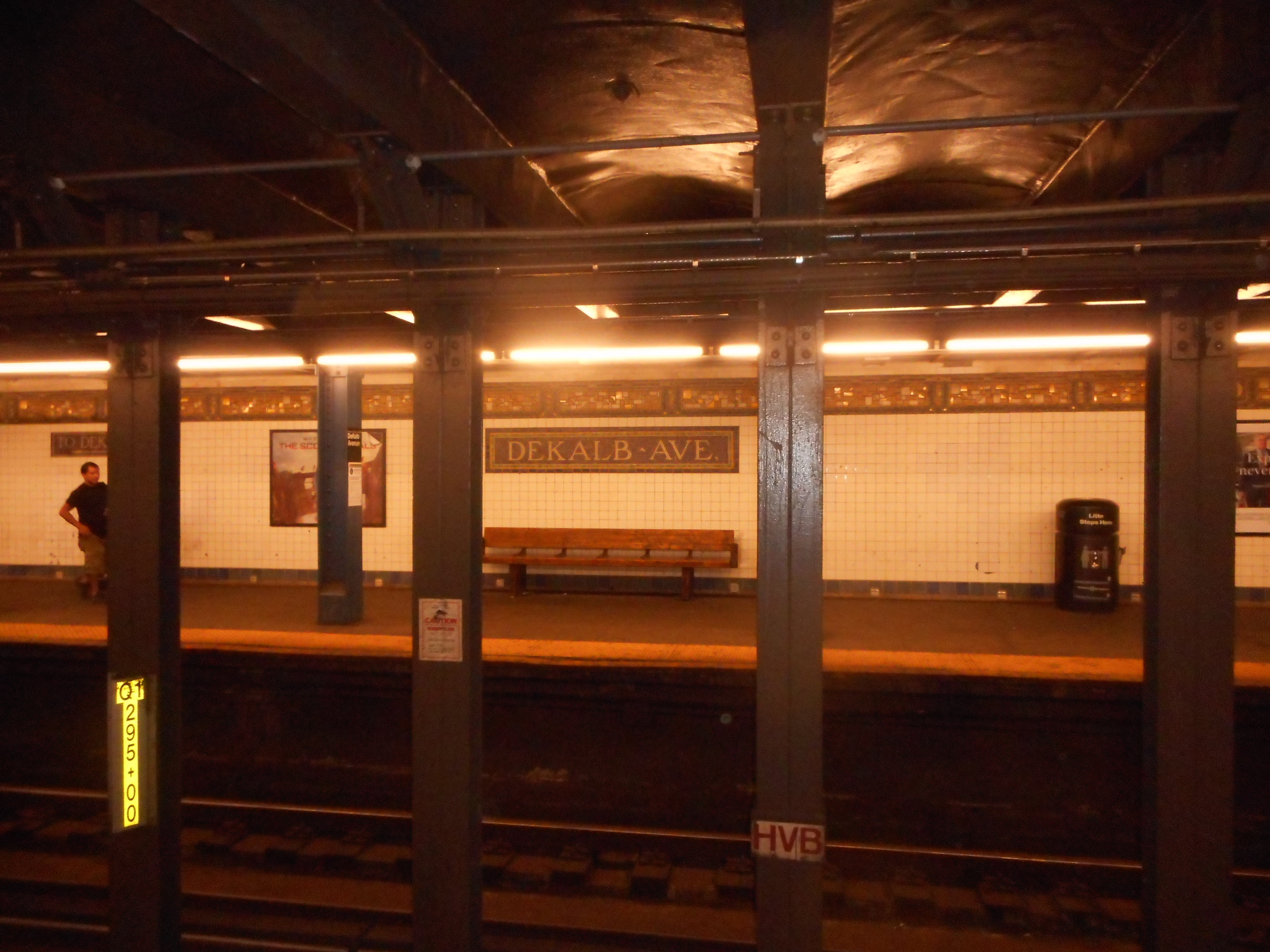 West Village-bound platforms of DeKalb Avenue (BMT Canarsie Line), as seen from the Rockaway Parkway-bound platform. This contains the traditional mosaics that were originally added to BMT subway stations, which are right over a bench.